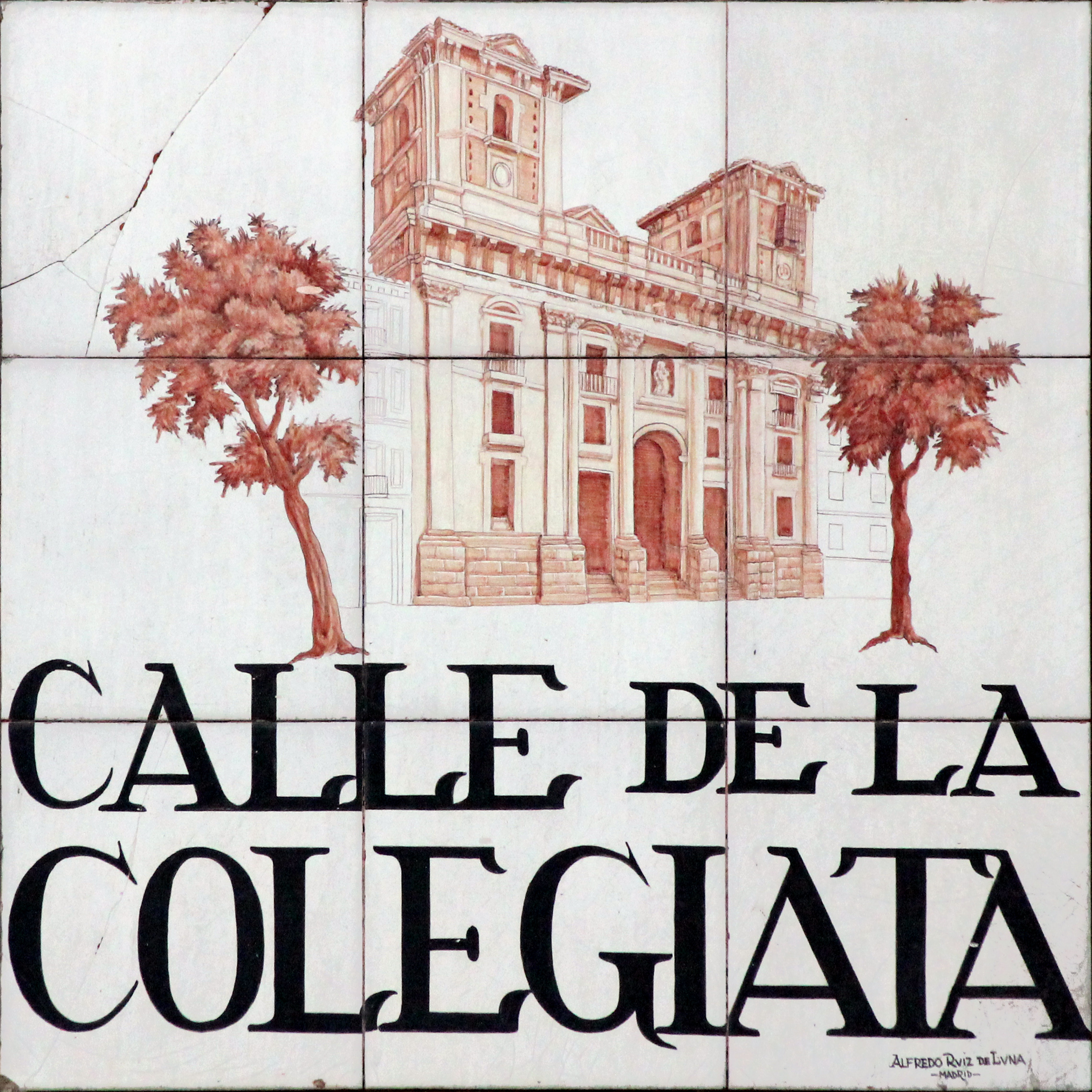 Sign of Calle de la Colegiata (street) in Madrid (Spain).